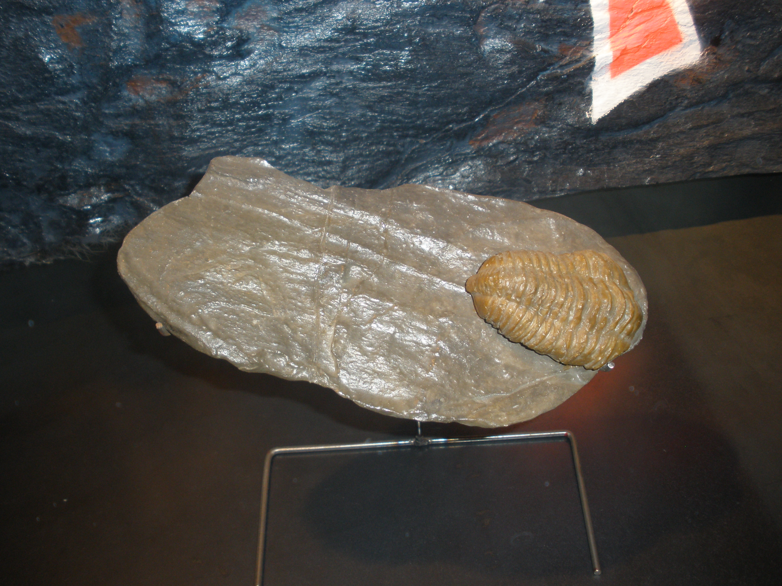 fossil trilobite